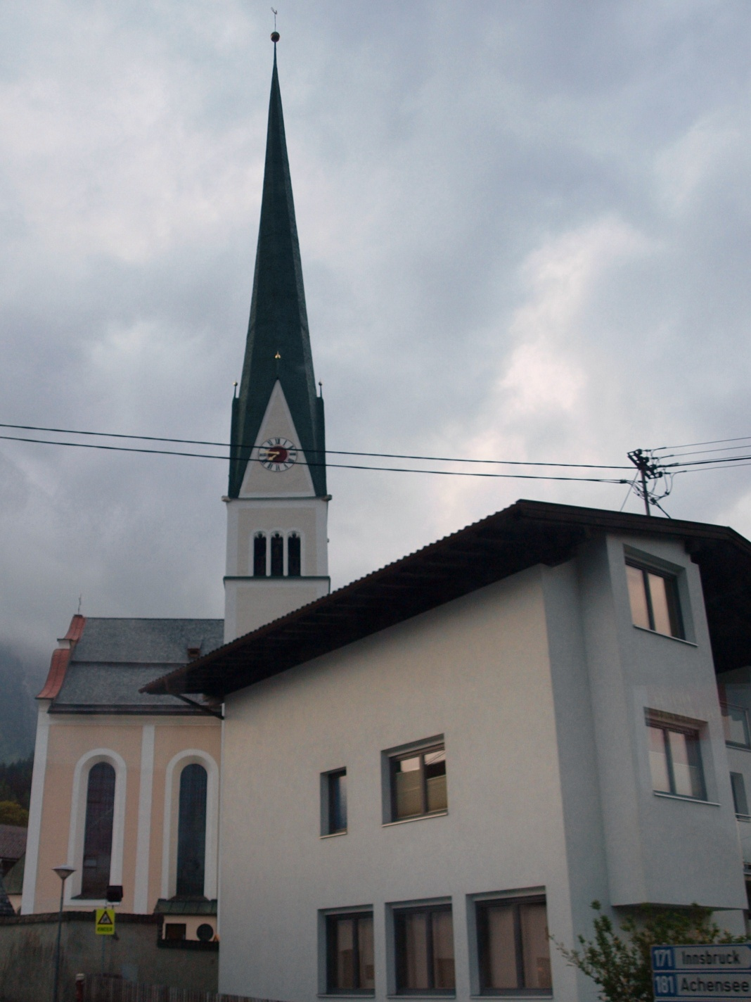 Church in Wiesing, Tirol, Austria.